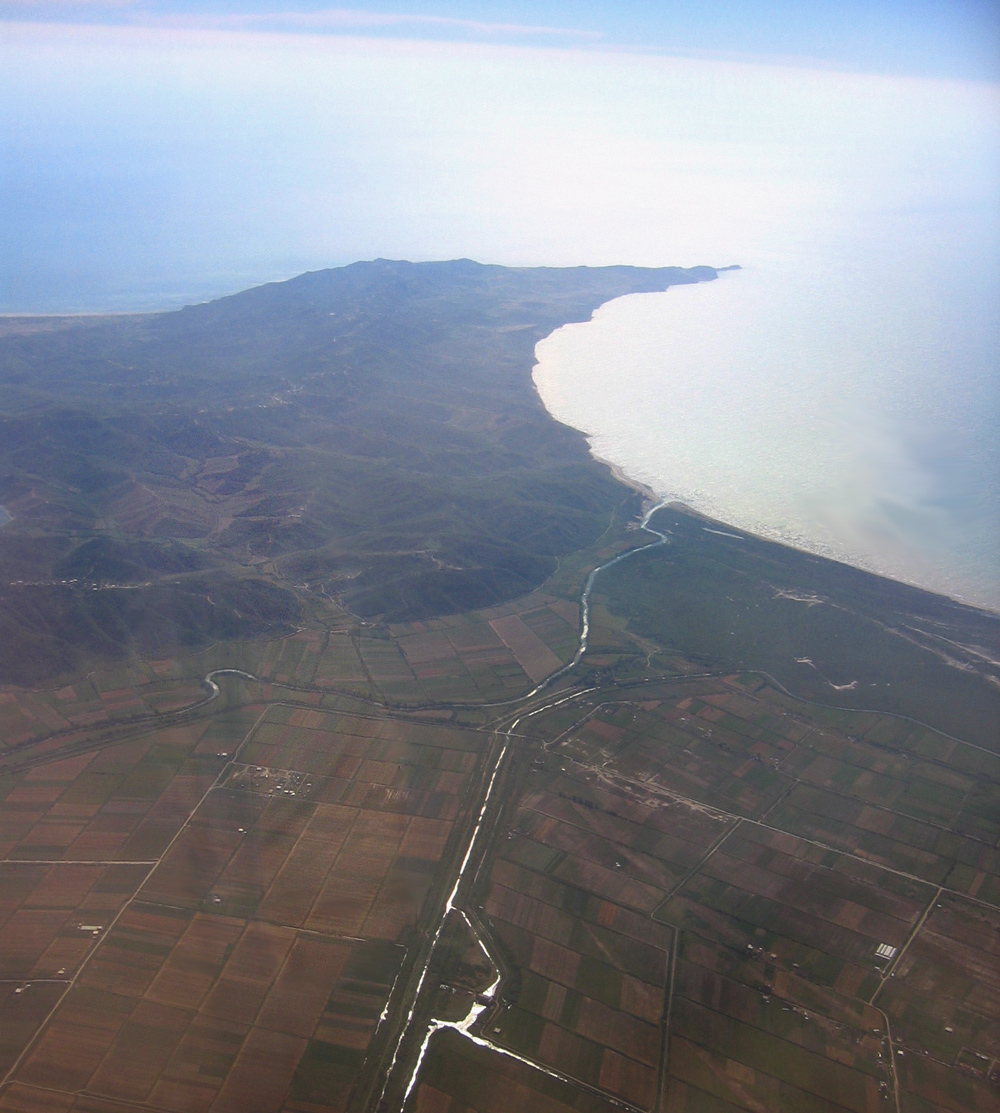 Kepi i Rodonit at the coast of the Adriatic Sea in Albania. Mouth of the river Ishmi